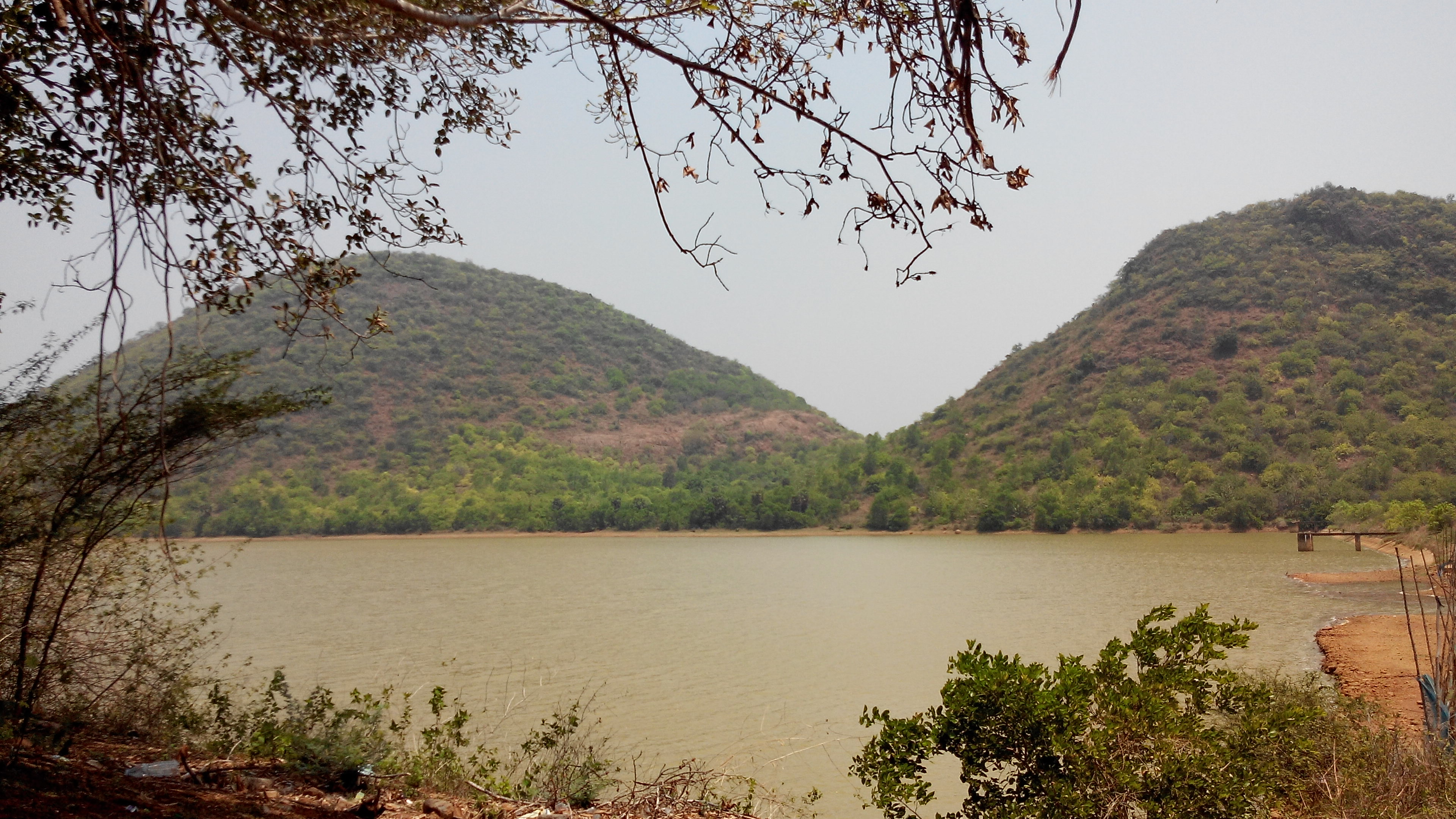 a image taken at gambheeram dam